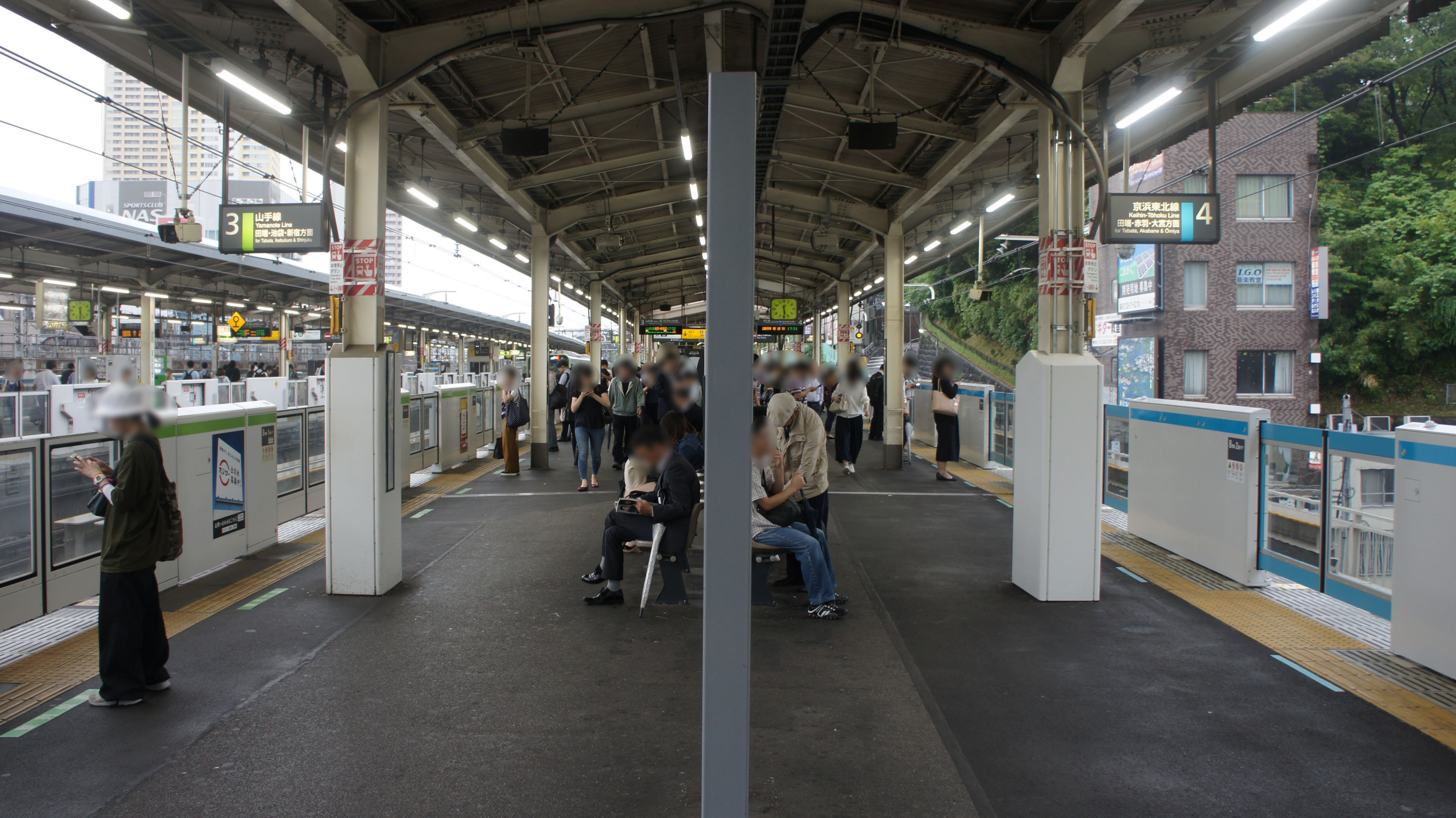 Platform 3・4 of JR Nishi-Nippori Station Sony NEX-3 + E 18-55mm F3.5-5.6 OSS